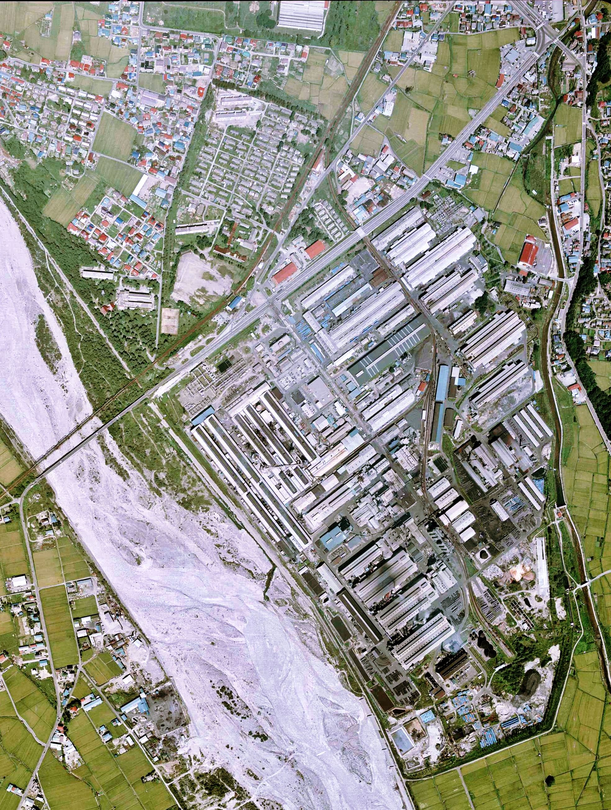 Showa Denko Omachi Plant.